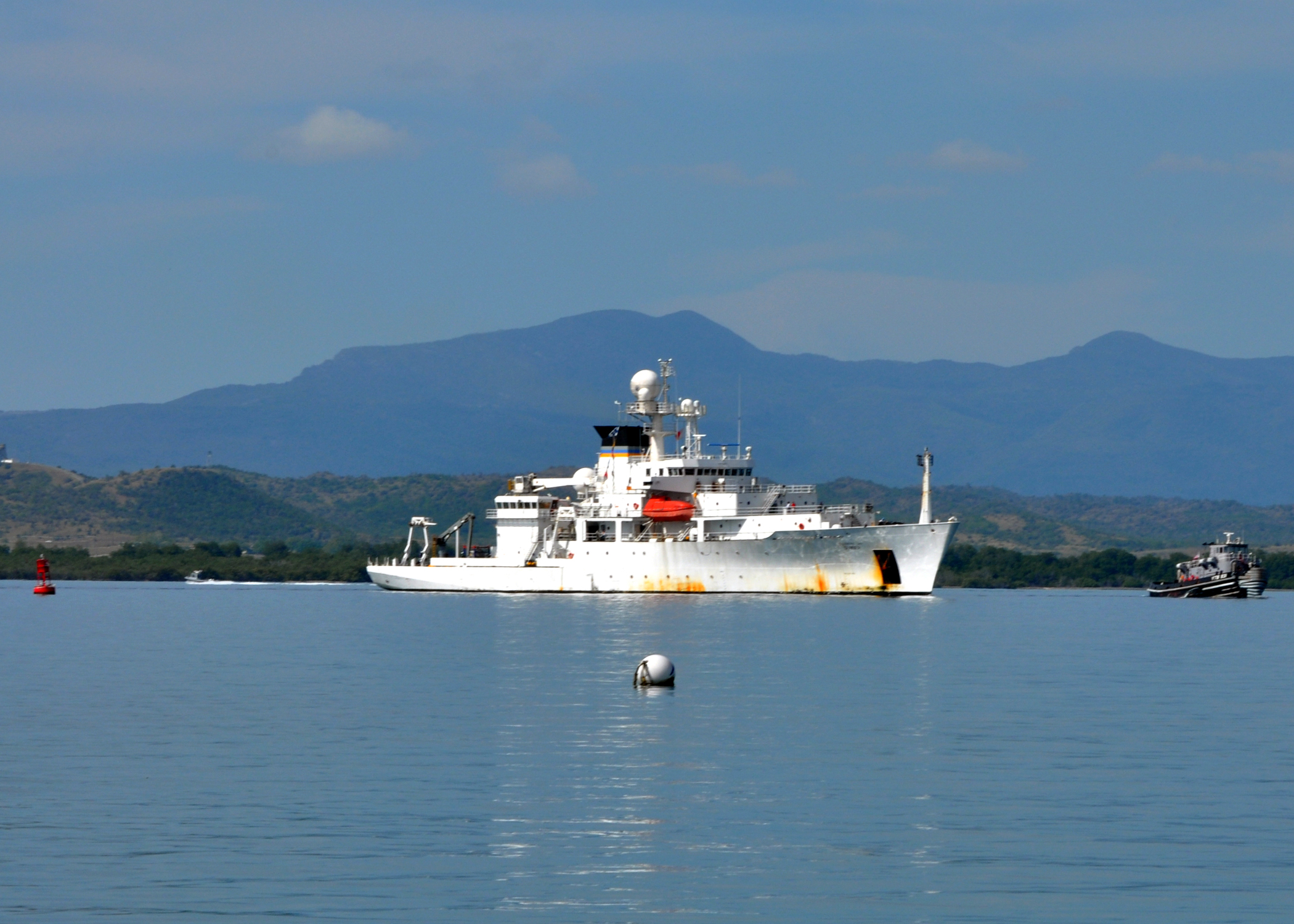 GUANTANAMO BAY, Cuba (Jan. 20, 2010) The Military Sealift Command oceanographic survey ship USNS Henson (T-AGS-63) arrives at Naval Station Guantanamo Bay to support humanitarian efforts of Operation Unified Response. The multipurpose ship performs acoustic, biological, physical and geophysical surveys, providing much of the U.S. military's information on the ocean environment.